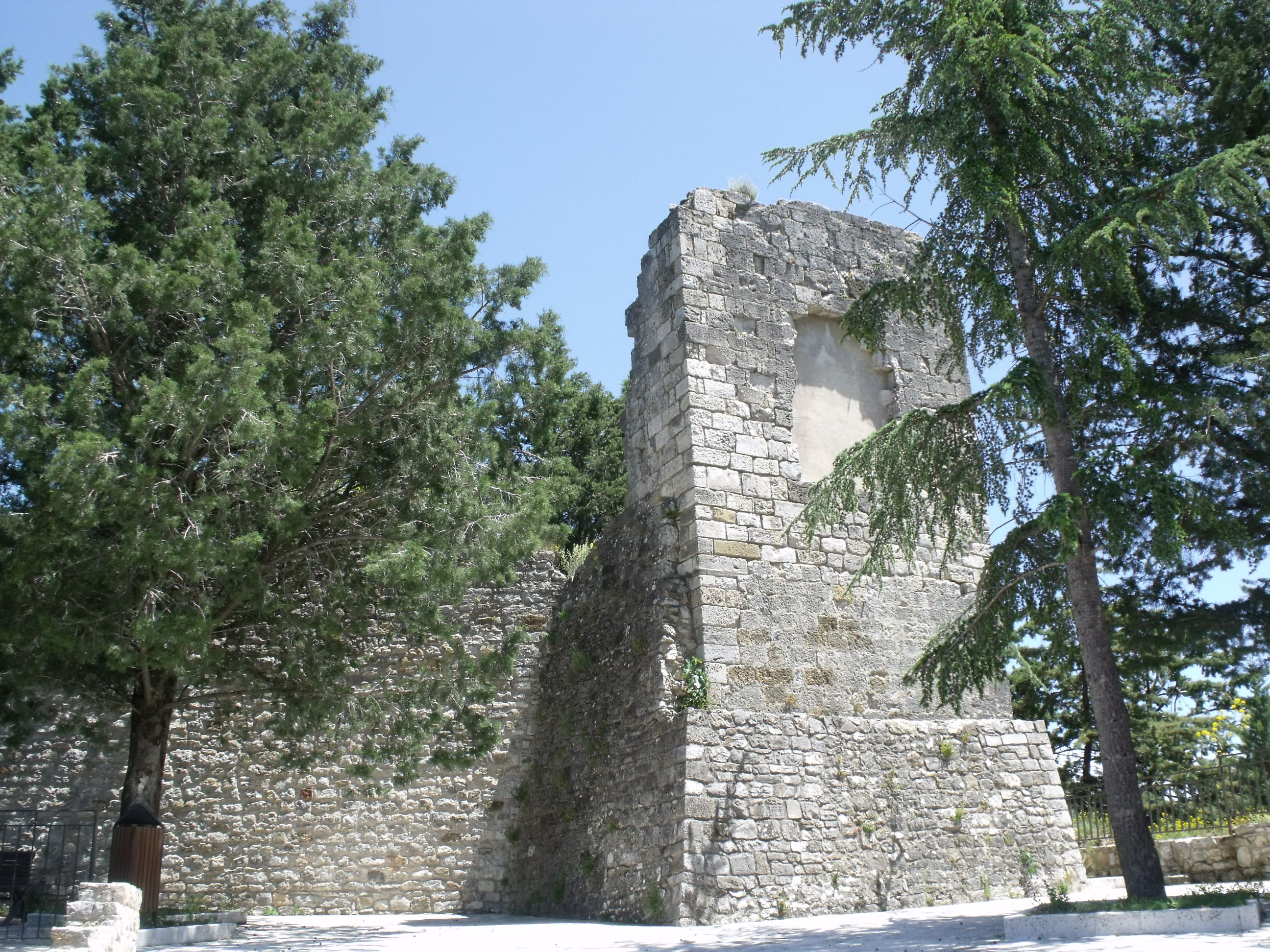 Castle Rocca Aldobrandesca in Rocchette di Fazio, hamlet of Semproniano, Maremma, Monte Amiata, Province of Grosseto, Tuscany, Italy